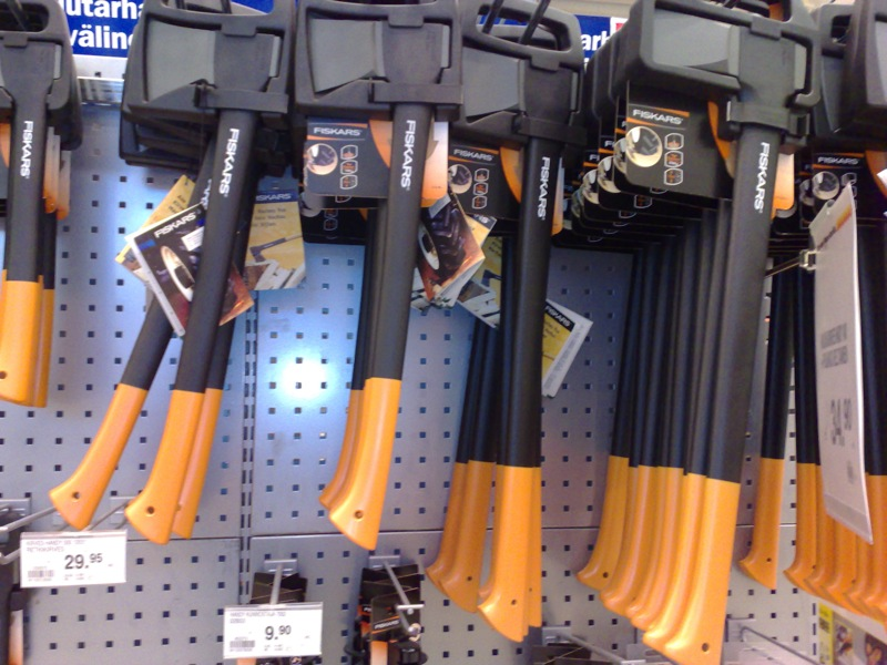 I hope Fred's dad liked the one I got for him. Who does not need a good axe?